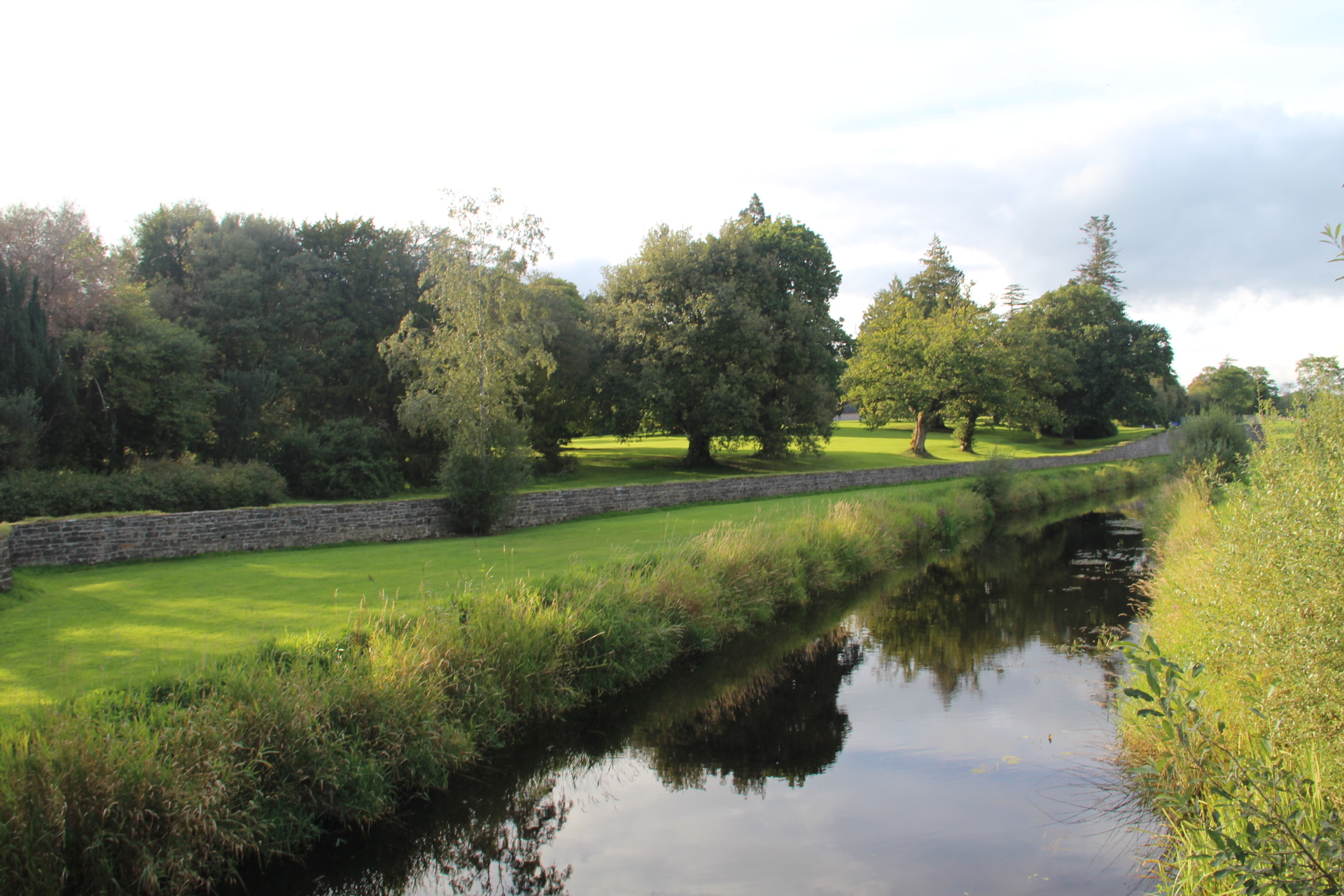 Rinn/Rynn river joining the Rinn/Rynn and Errew lakes.